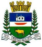 Coat of Arms of the city of Cristais Paulista, São Paulo state, Brazil. From the municipal website. Emerson